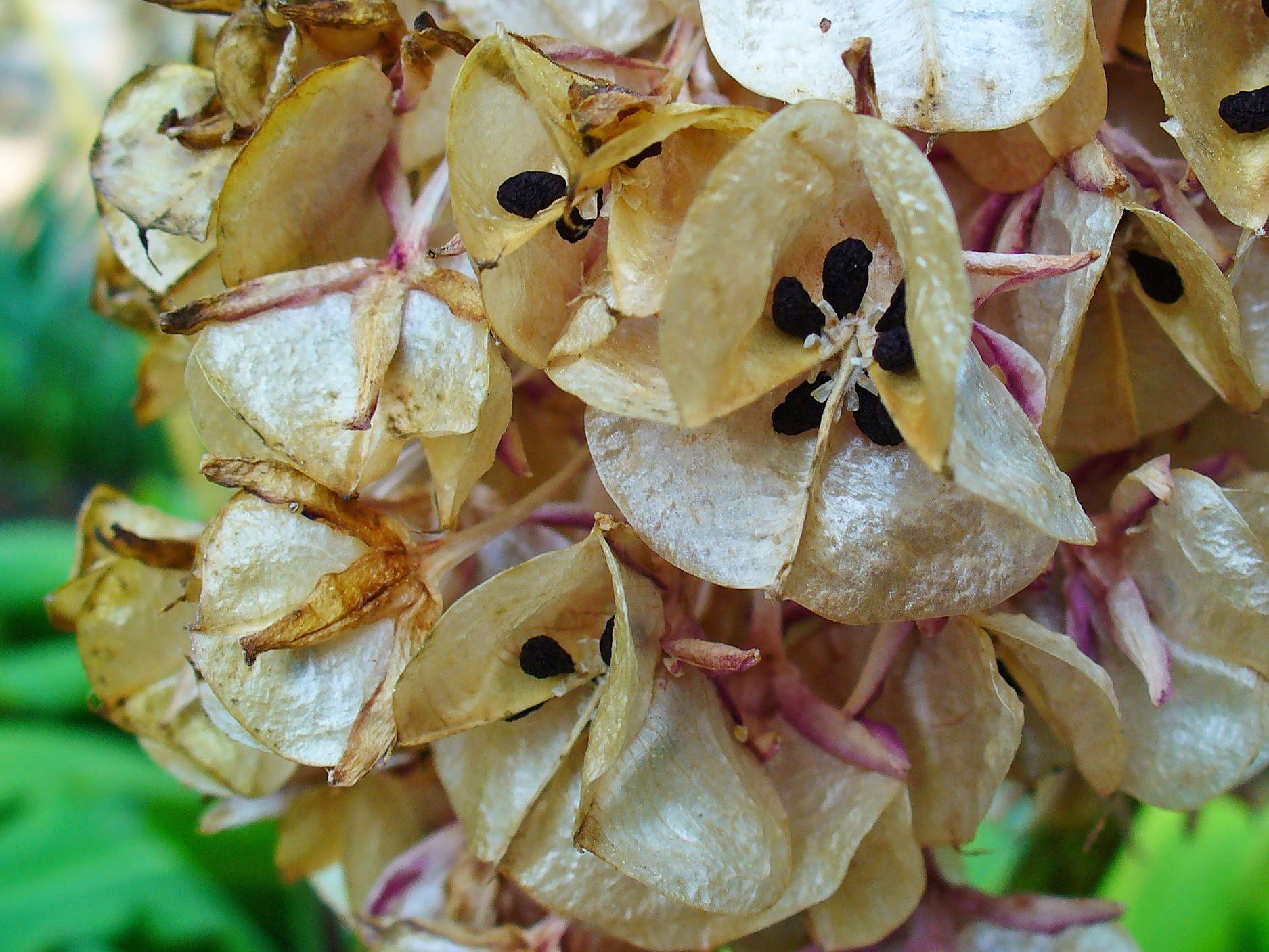 Eucomis bicolor, Hyacinthaceae, Pineapple Lily, fruits; Botanical Garden KIT, Karlsruhe, Germany.